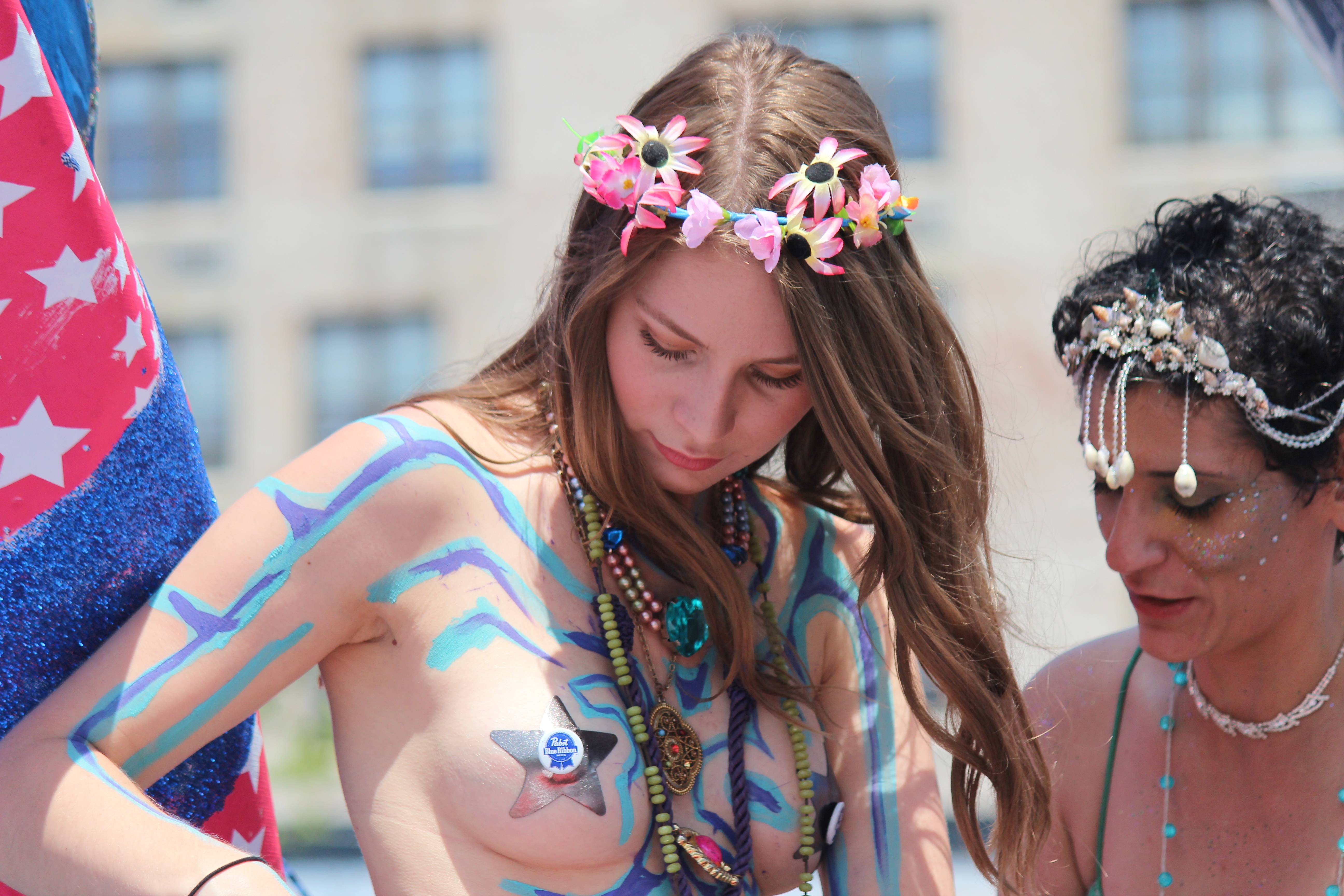 Coney Island Mermaid Parade 2013